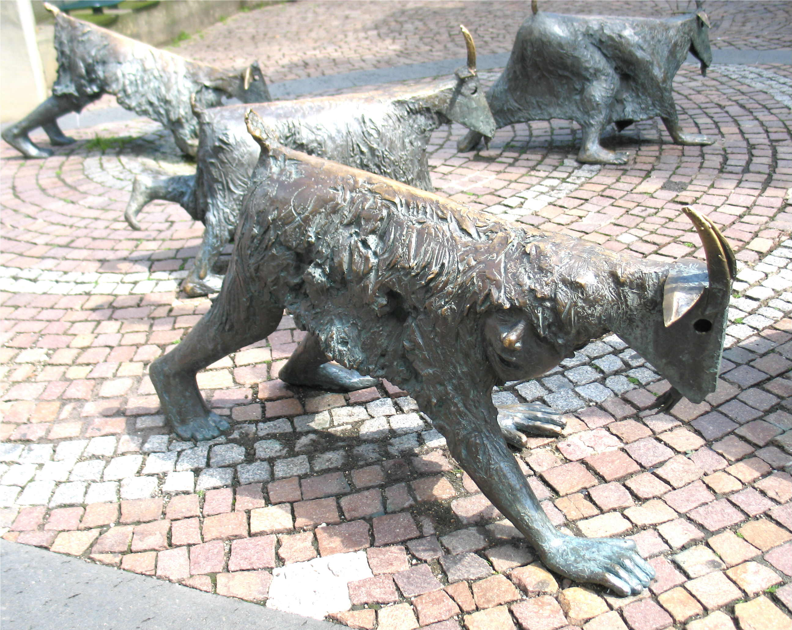 Gäessetrepper fountain in Bitburg, Germany.